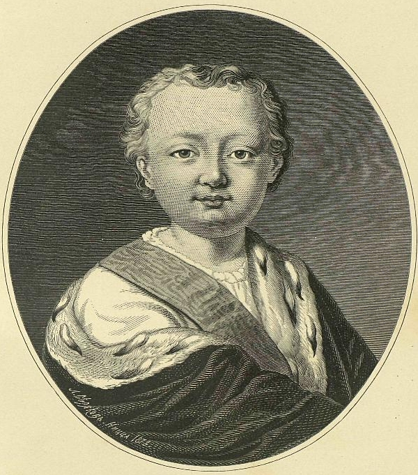 Ivan VI of Russia